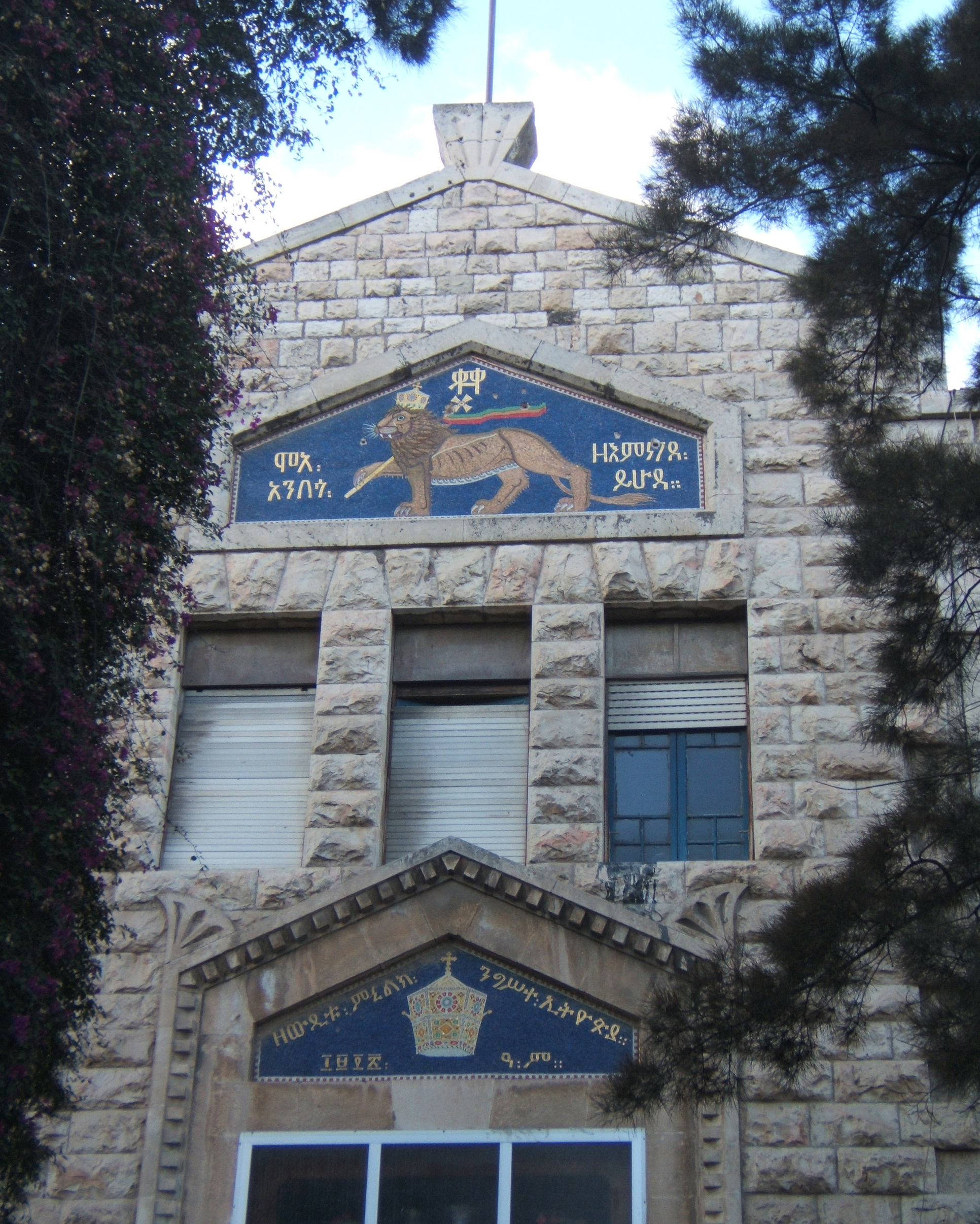 Ethiopian Consulate, Street of Propehts, Jerusalem